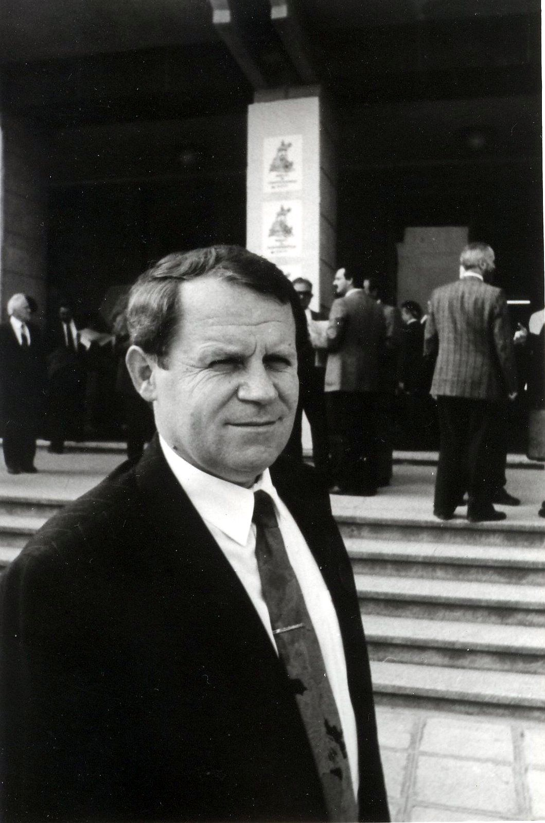 Sándor Kónya-Hamar (1948–) a Transylvanian poet, publicist, editor and politician.